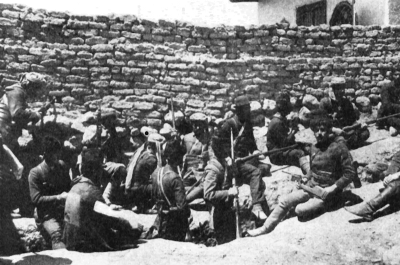 Armenians in Van during the Siege of Van.